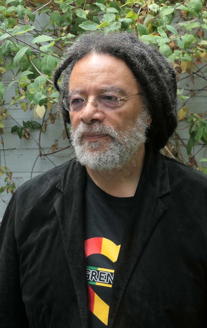 Depicted person: Paul Gilroy – British sociologist